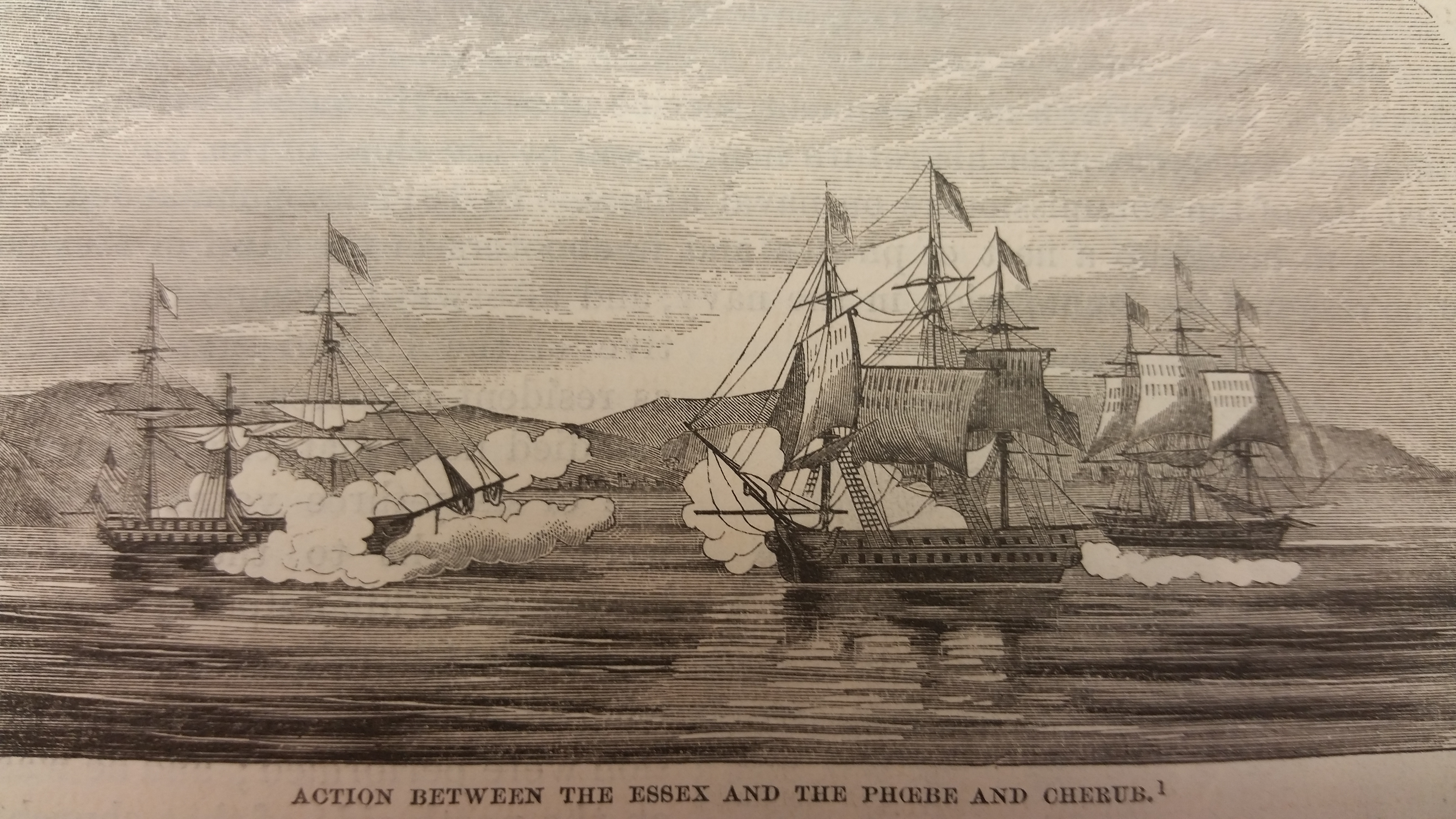 Battle of Valparaiso